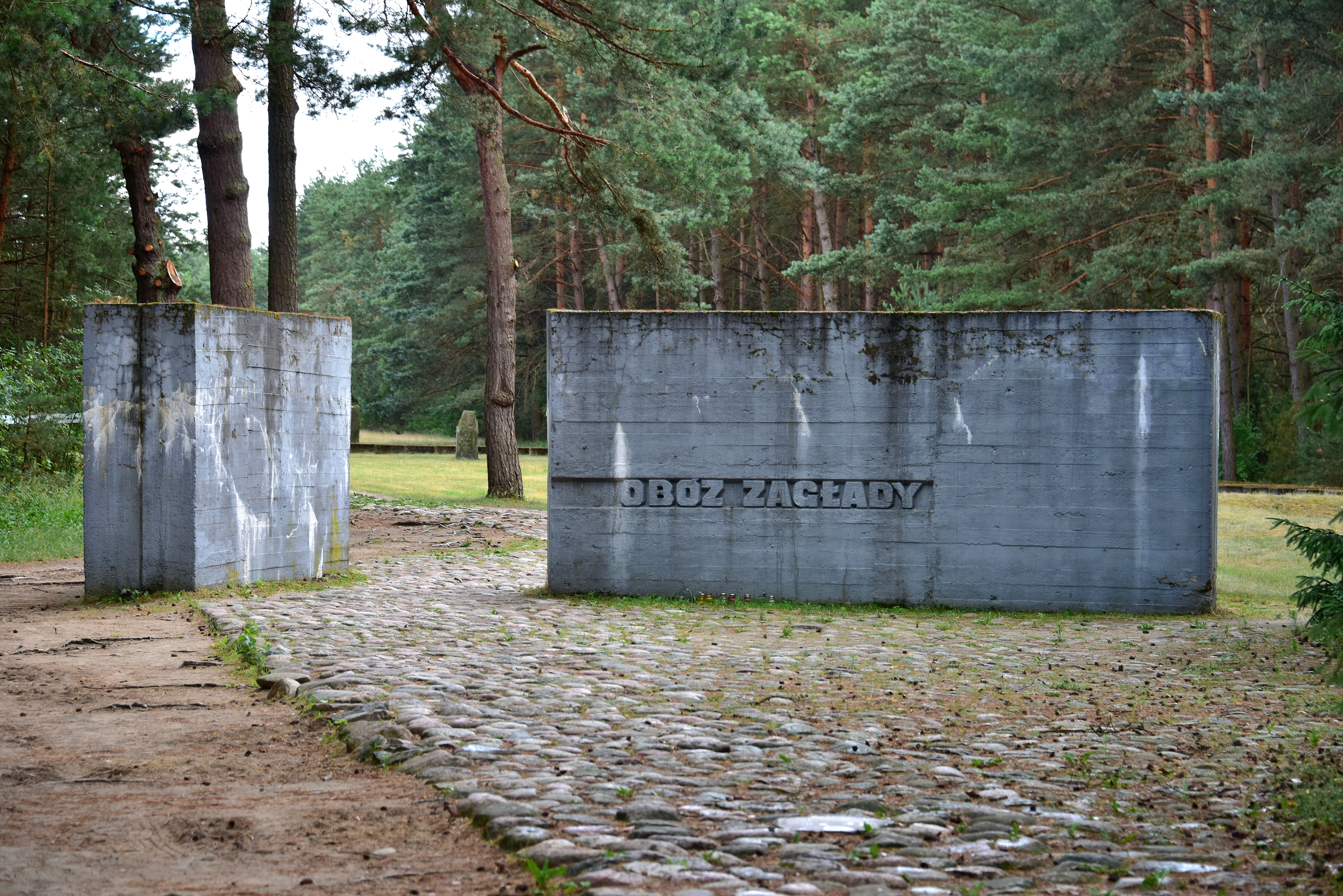 Symbolic gate to the fromer Treblinka II camp